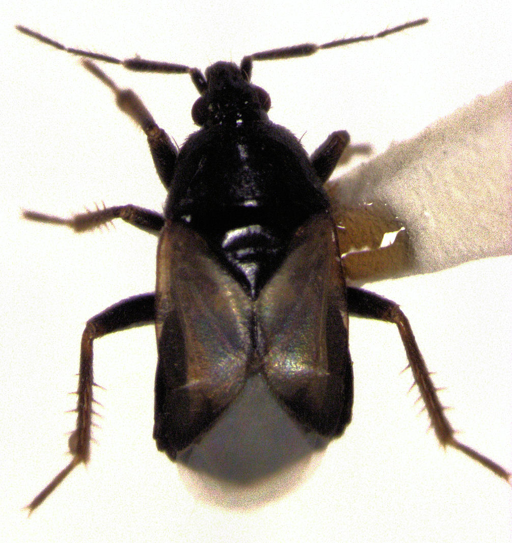 adult female Xylocoris galactinus, length about 2.6 mm